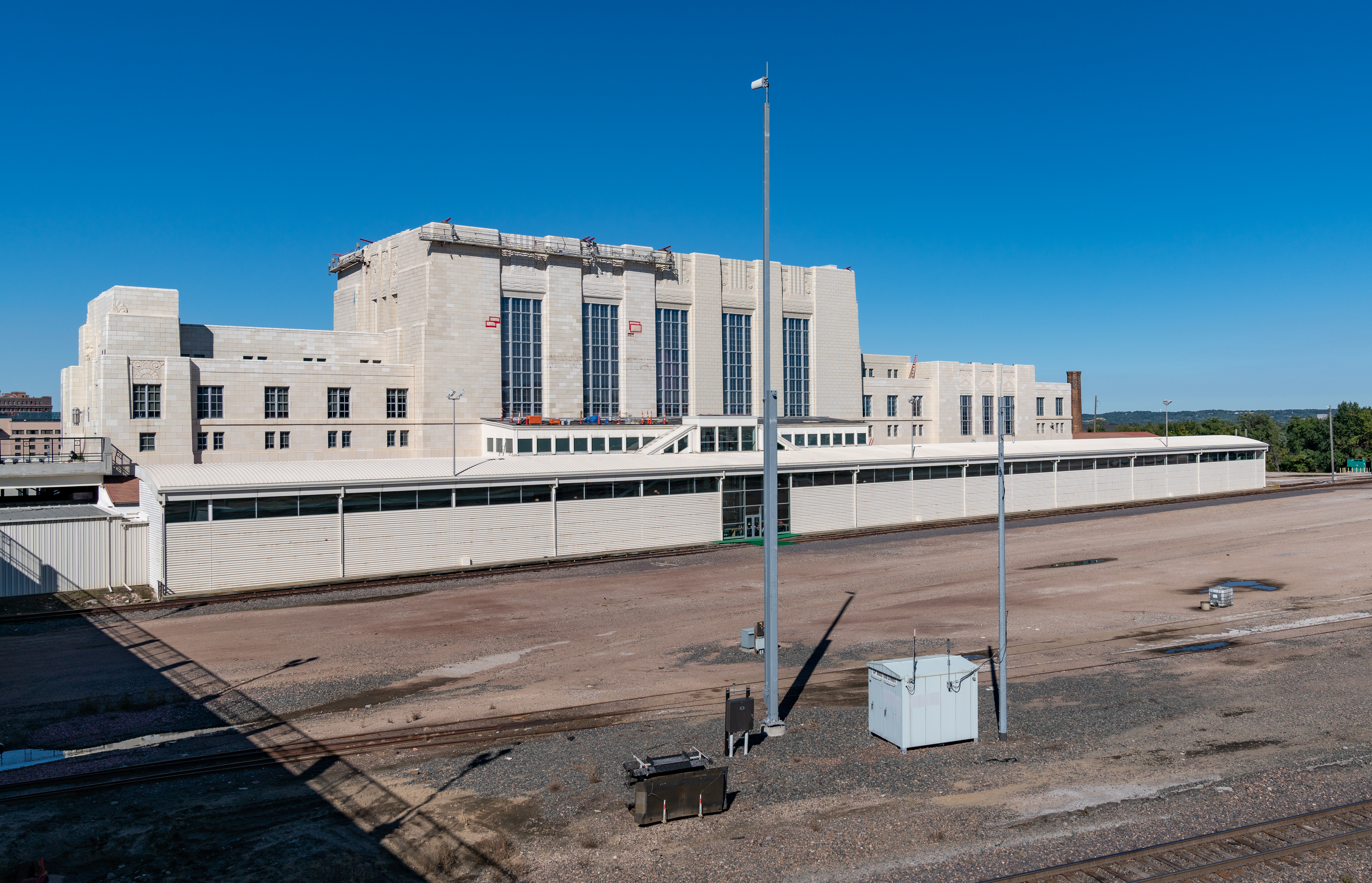 The Durham Museum, a 1931 art deco train station, in Omaha, Nebraska.